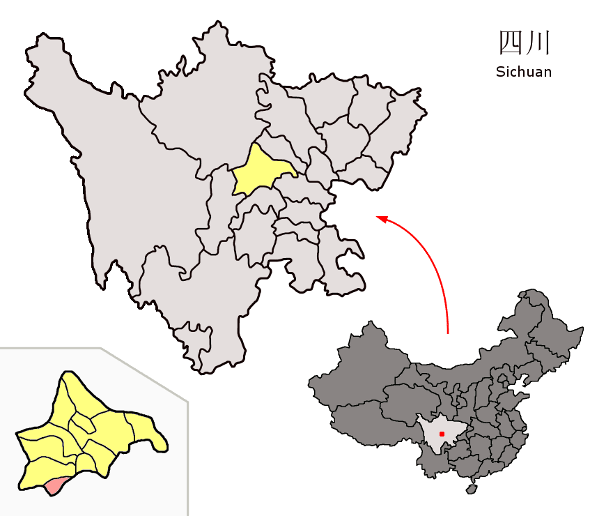 Location of Pujiang County (pink) and Chengdu Prefecture (yellow) within Sichuan province of China Map drawn in september 2007 using various sources, mainly : Sichuan province administrative regions GIS data: 1:1M, County level, 1990 Sichuan Counties map from